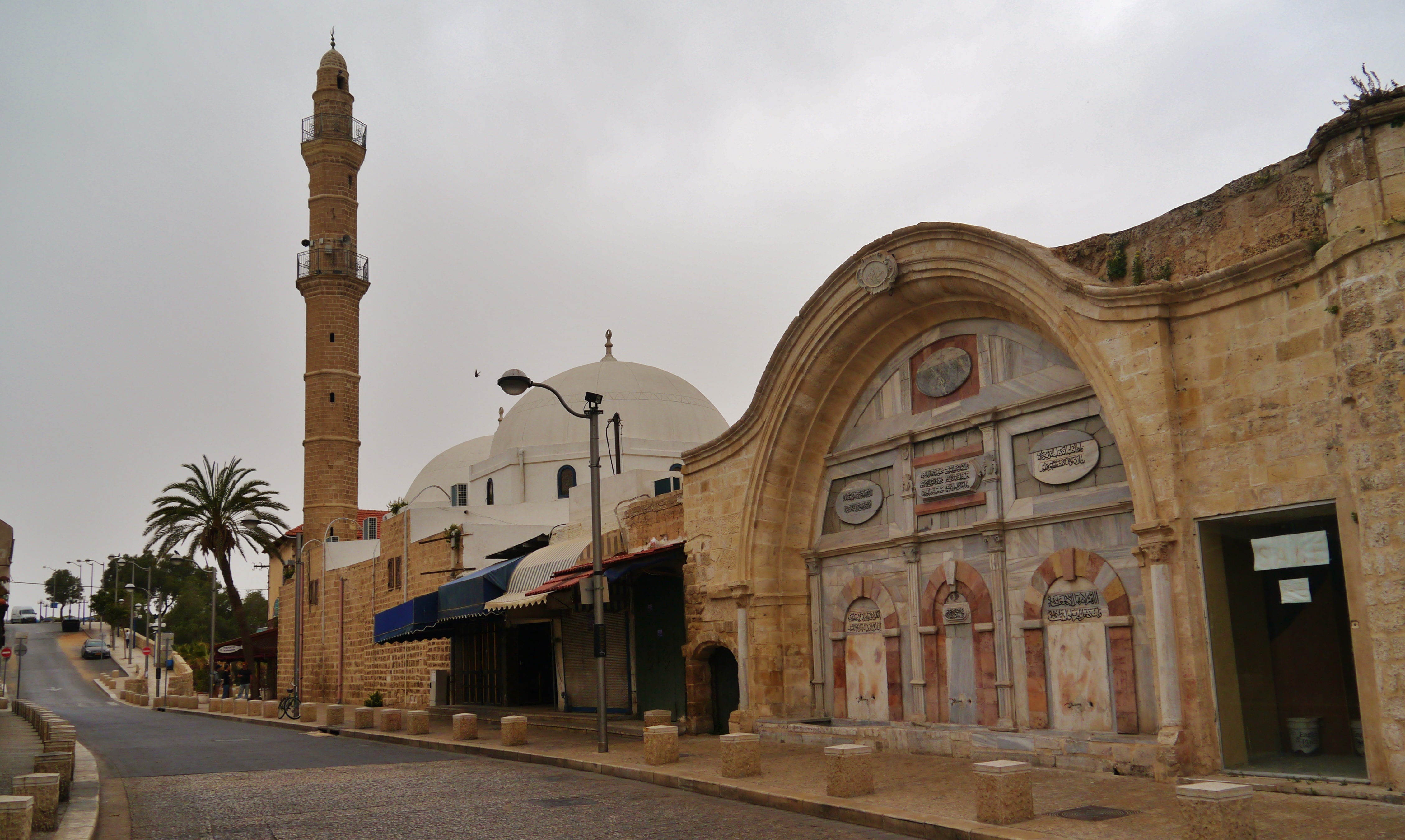 Mahmoudia Mosque, Jaffa, Israel